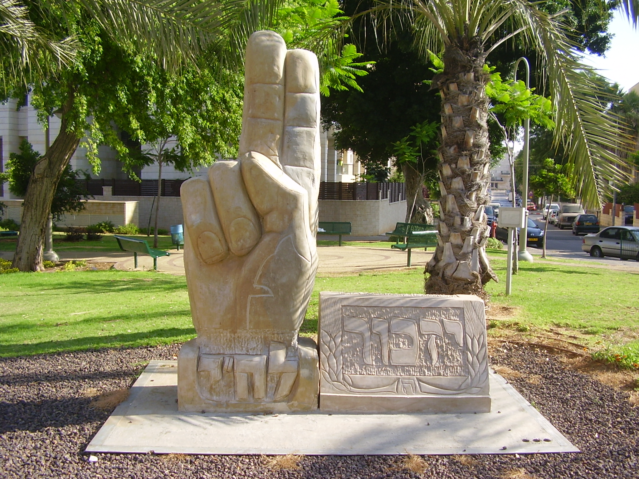 Lehi (Israel freedom fighters) in Petah Tikva, Israel